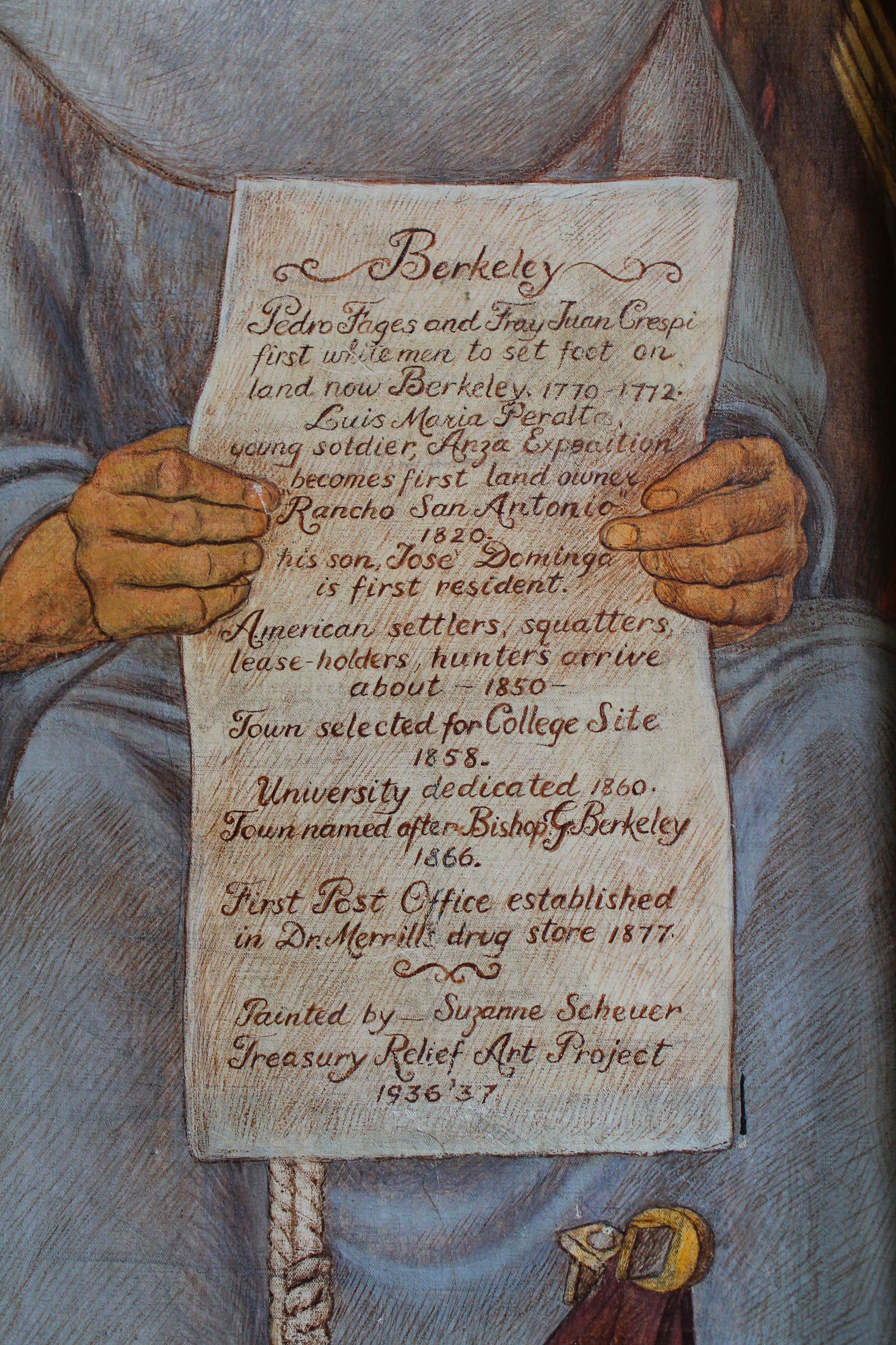 U.S. Post Office Mural (detail), "Incidents in California History" (1937) by Suzanne Scheuer